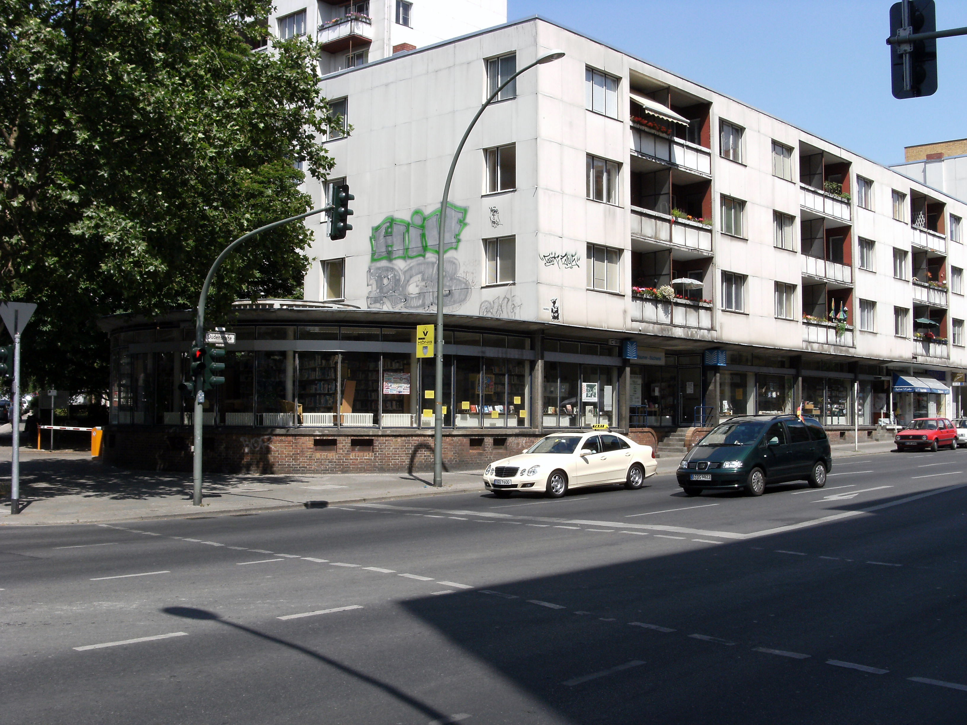 Berlin in june 2008.